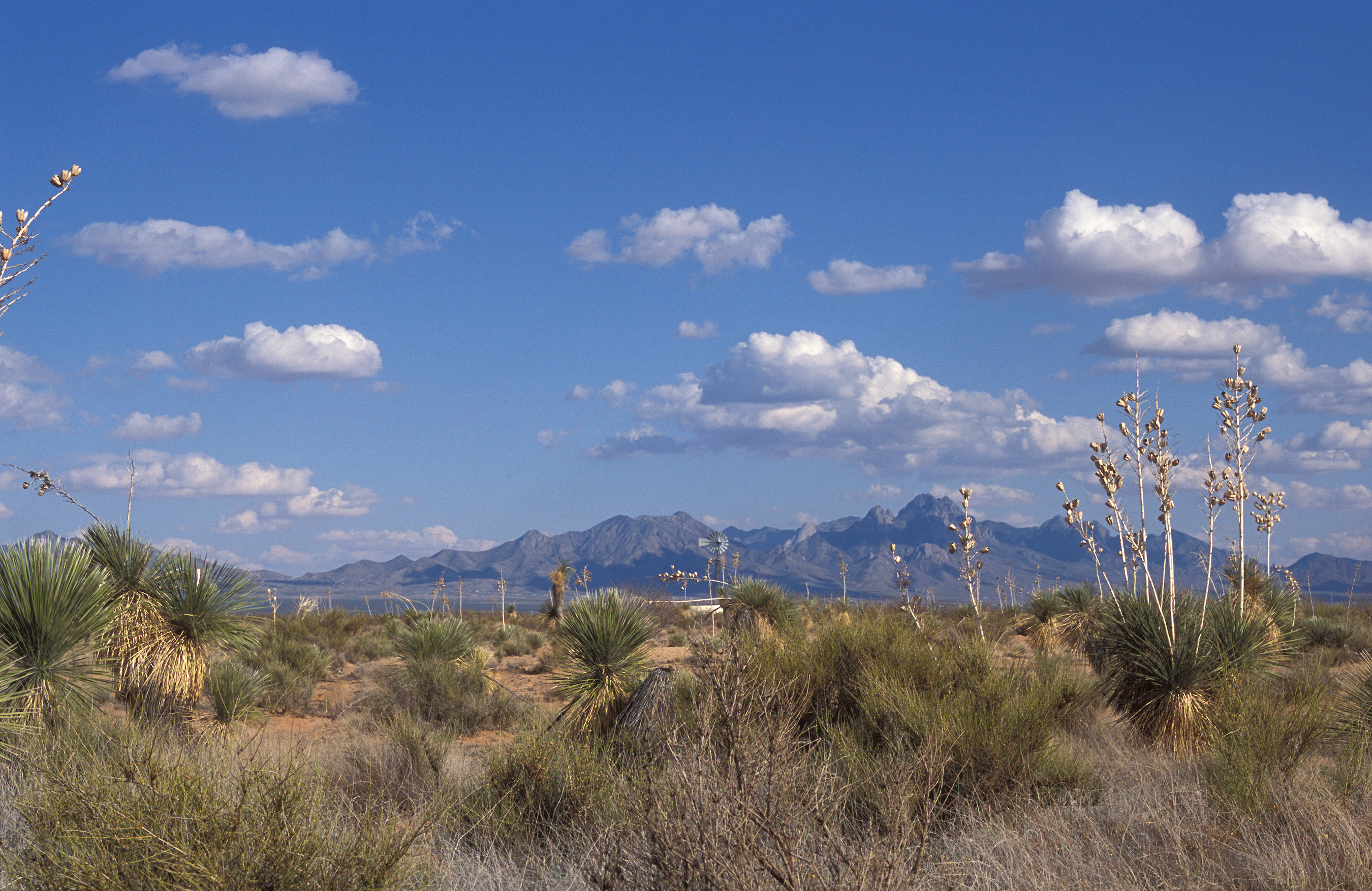 Grassland-shrub savanna characteristic of the northern Chihuahuan Desert on the 193,000-acre Jornada Experimental Range/Jornada Biosphere Reserve